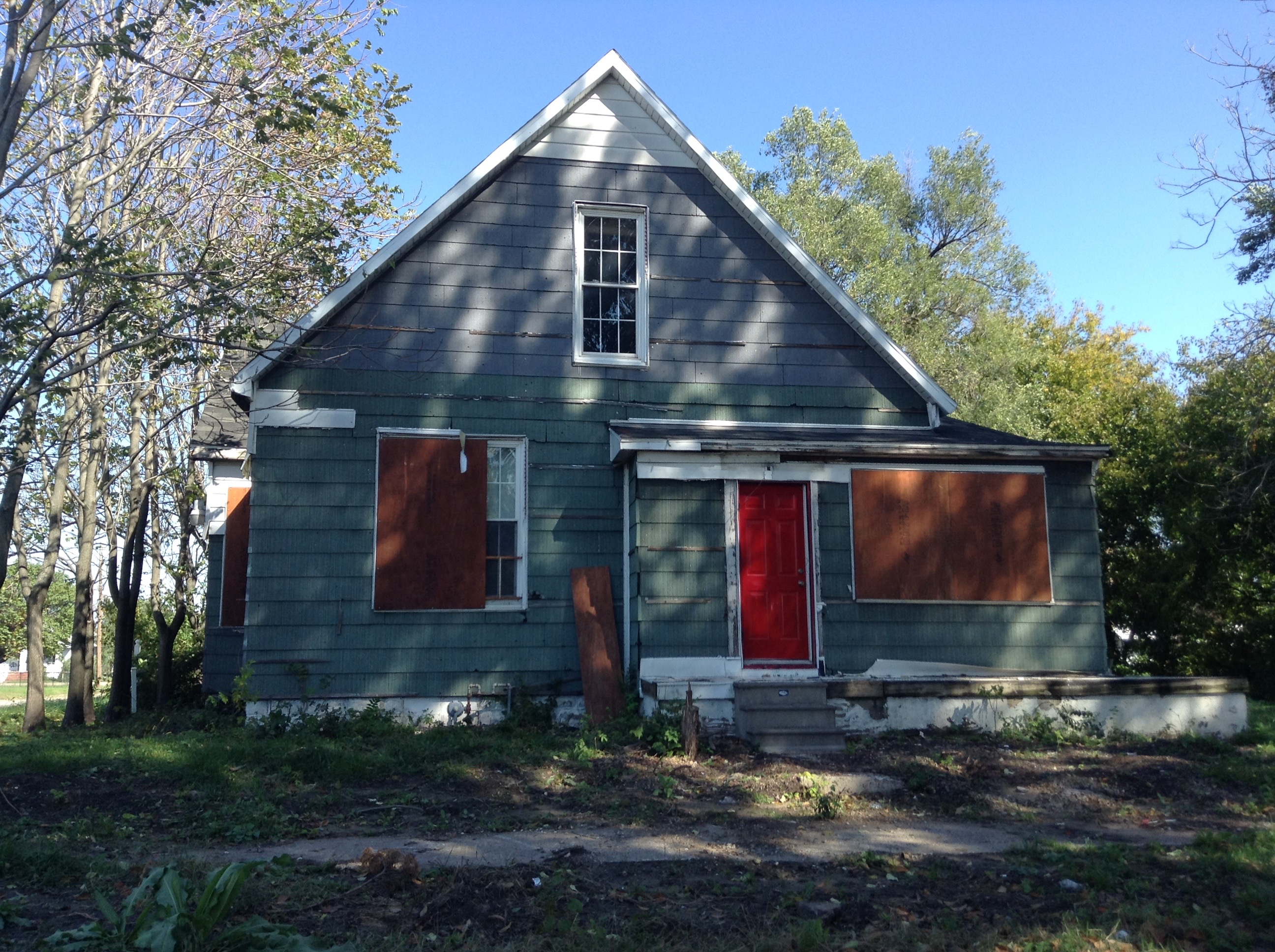 Miles Davis Youth House. He lived in this house from 1927 to 1944. It is located in East St Louis, IL, at the corner of 17th Street and Kansas Avenue.